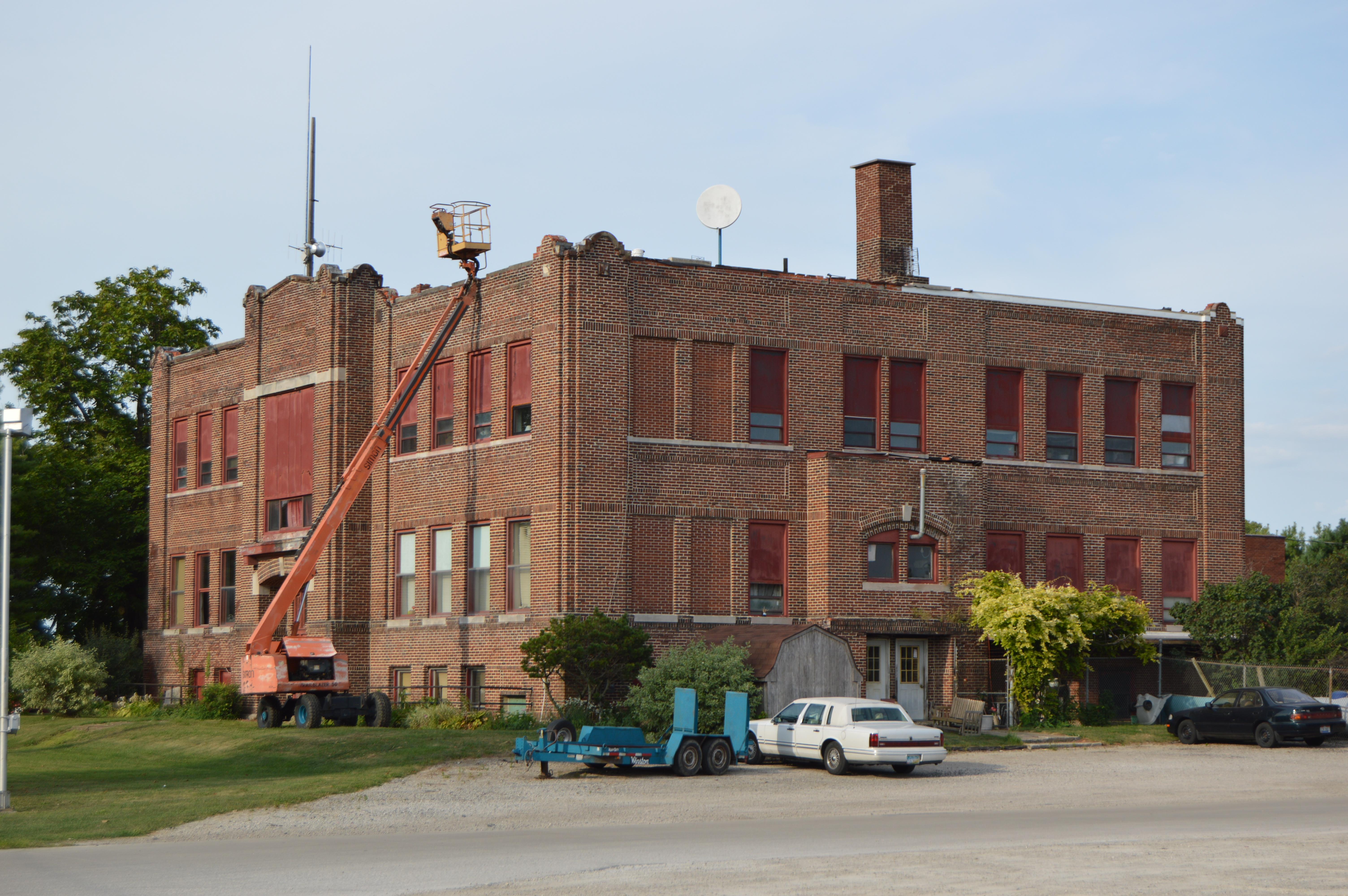 Front and southern side of the former Martel elementary and high school (now abandoned), located on Martel Road in Martel, Ohio, United States.